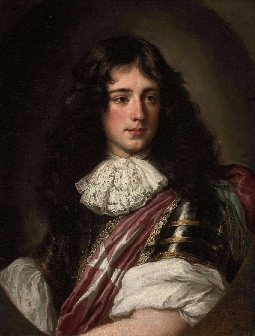 Philippe, Chevalier de Vendôme (future Duke of Vendôme)